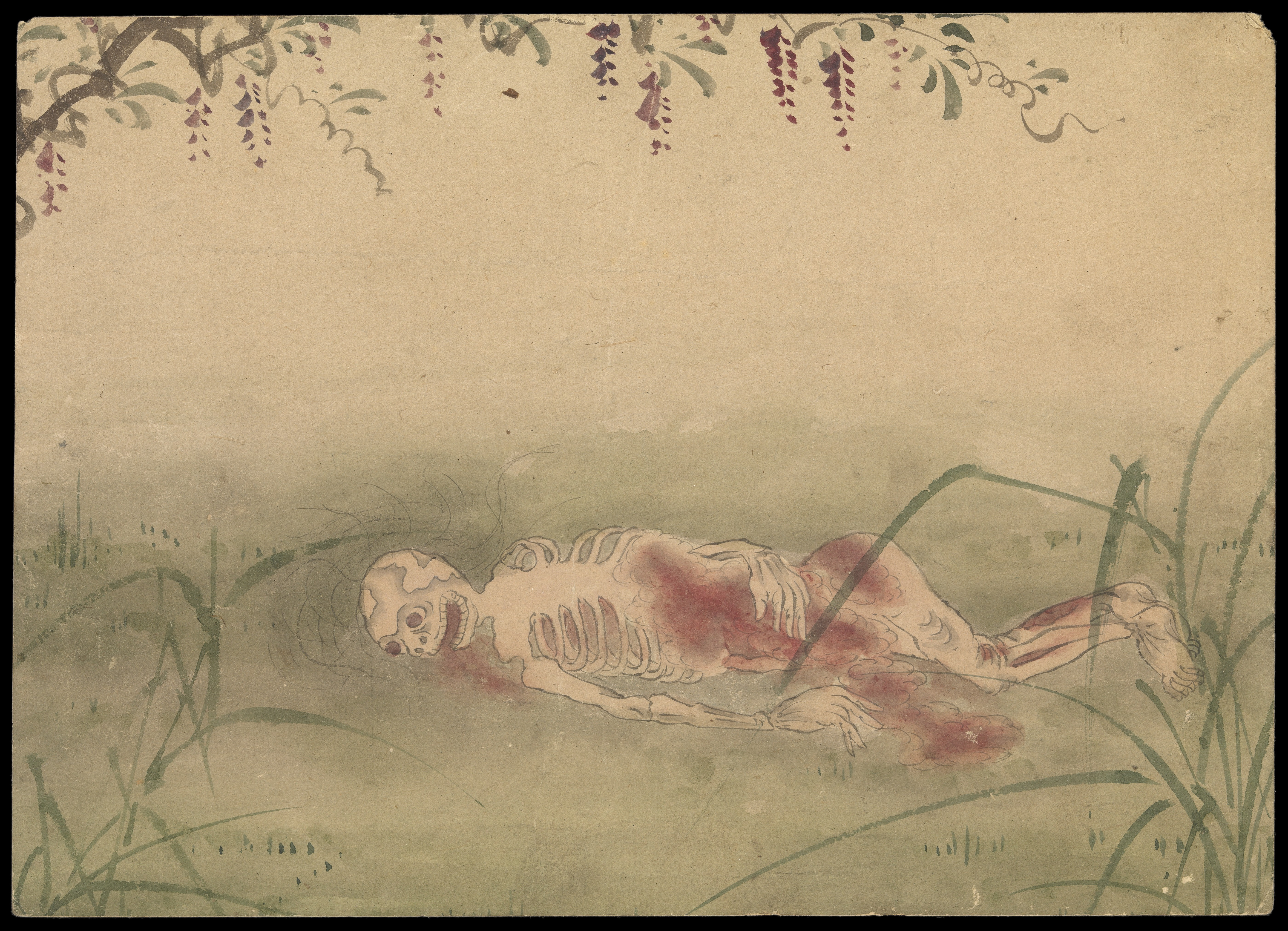 Kusozu: the death of a noble lady and the decay of her body. Seventh in a series of 9 watercolour paintings The flesh has almost all decayed revealing the skeleton. There are wistaria flowers in blossom above her body. Iconographic Collections